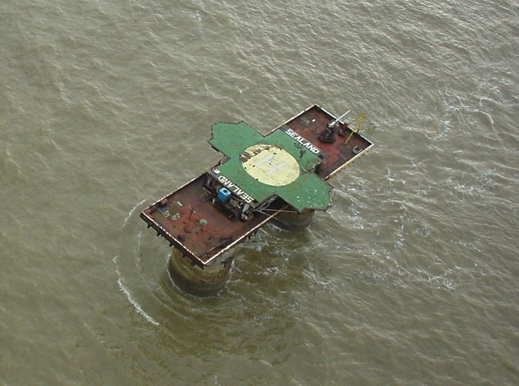 Sealand from a helicopter.